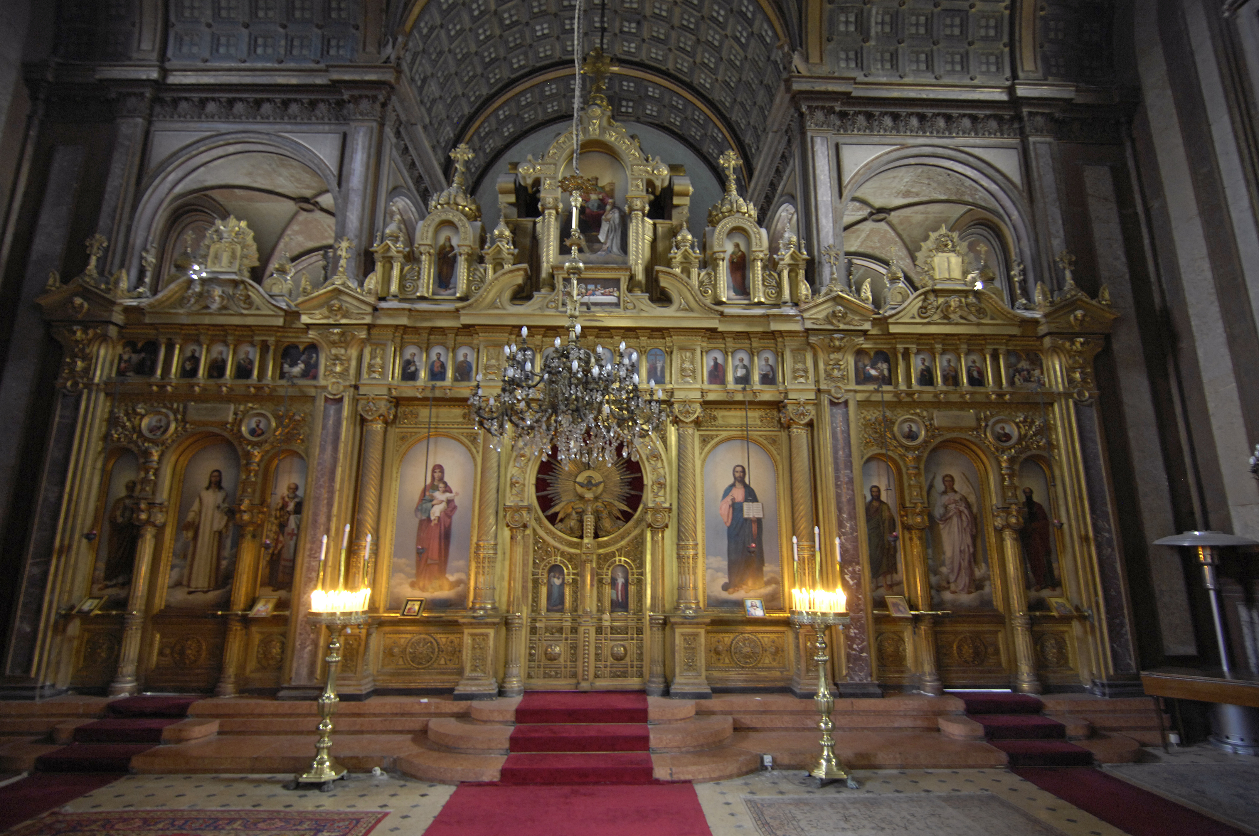 The full iconostasis on a picture from before the restoration.